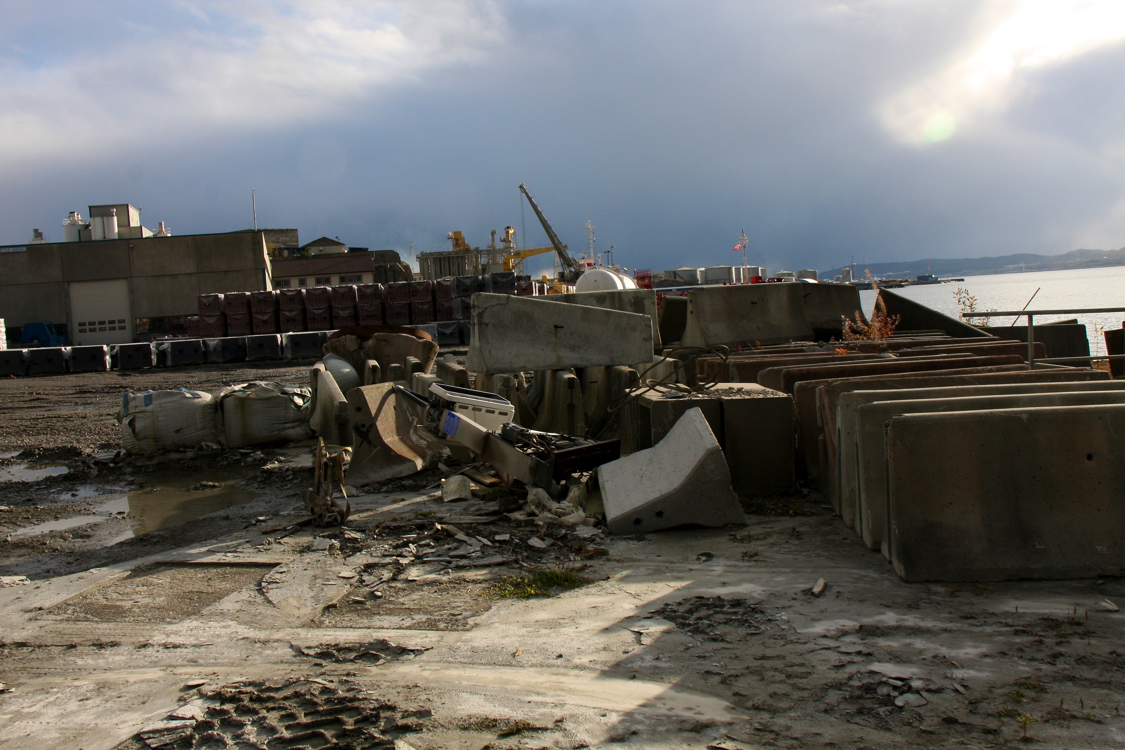 Gulen municipality, Norway.